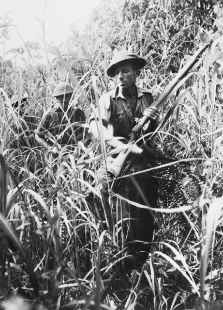 1943-01-22. PAPUA. SANANANDA AREA. K. MUIRY (LEFT) AND J. MCKENZIE, BOTH OF 2/7TH CAVALRY REGIMENT, FORCE THEIR WAY THROUGH THICK KUNAI GRASS ON PATROL DUTY IN THE SANANANDA AREA